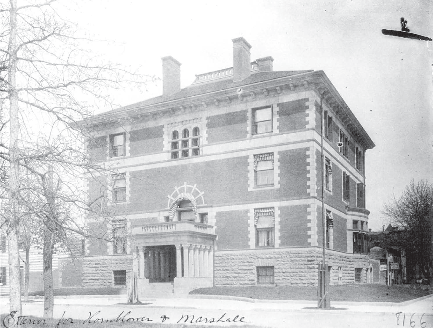 Fraser Mansion in Washington, DC. Believed to have been photographed prior to 1901 alterations.